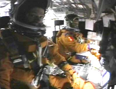 The video begins with the camera positioned to the right of pilot Willie McCool near the front windows of the orbiter. Commander Rick Husband is seated to McCool's left.